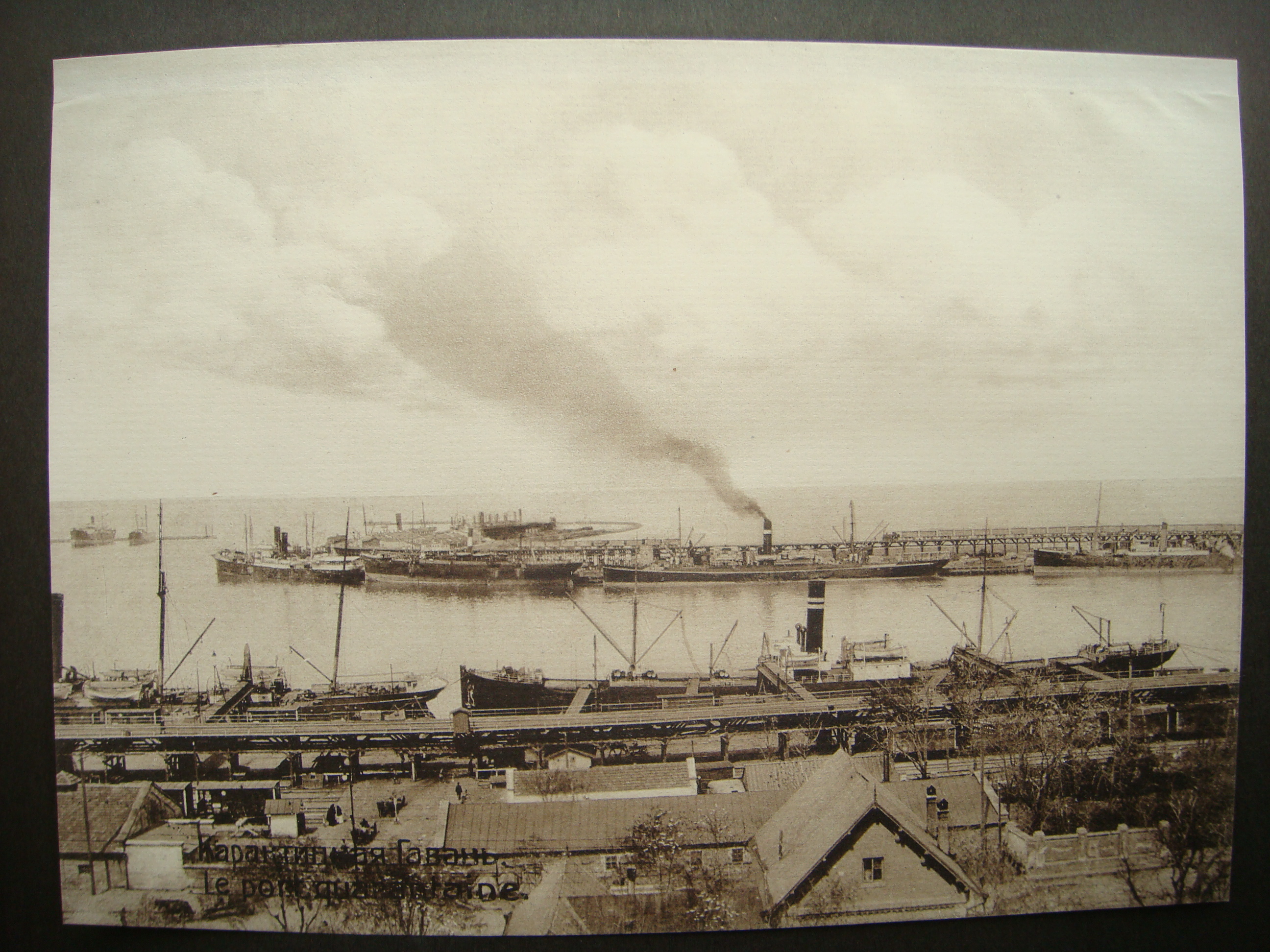 This is photo view of Odessa from Souvenir Photo Album published in Odessa circa early XX century.